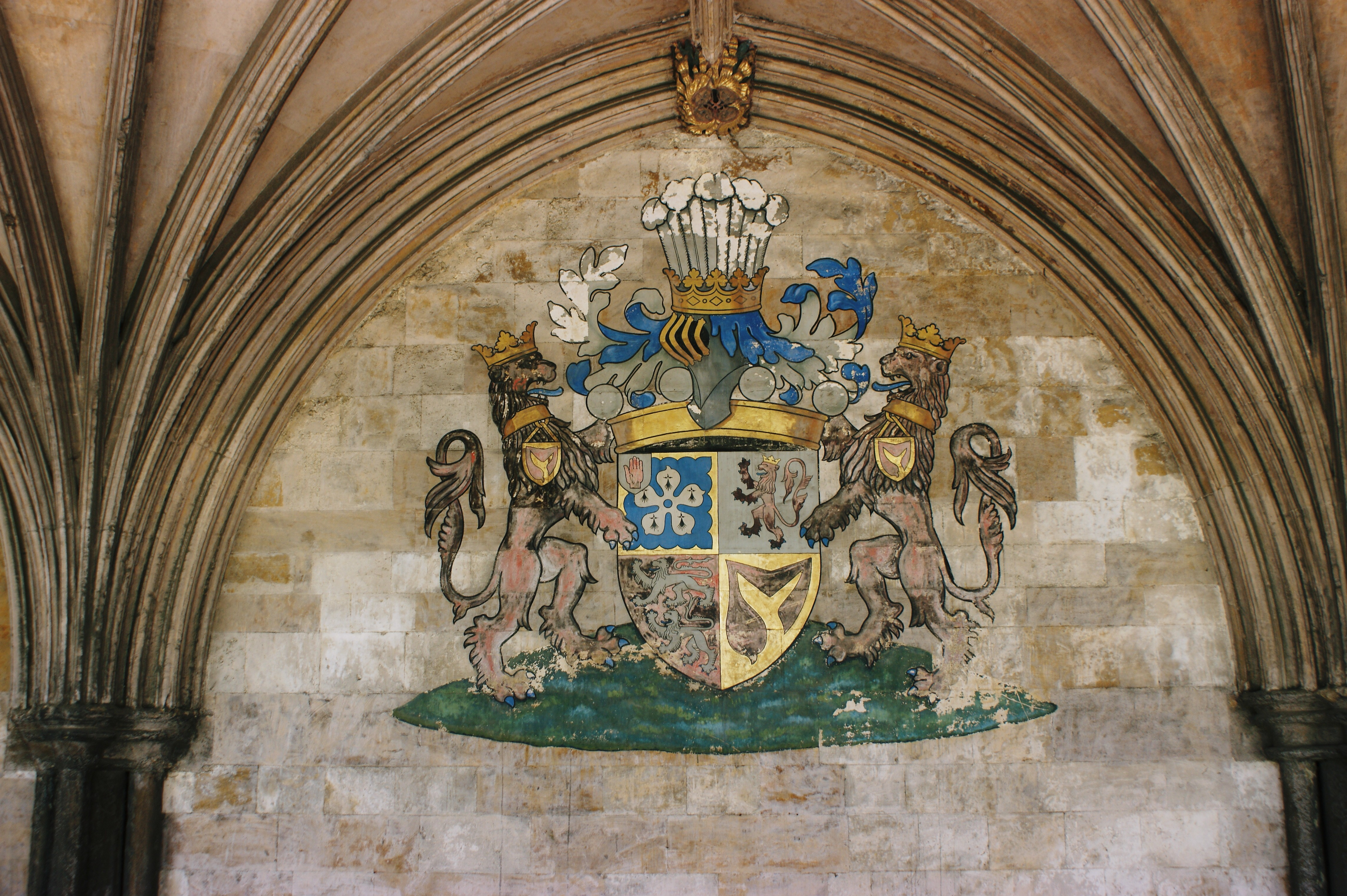 Norwich Cathedral (Holy Trinity), 16 June 2008. Coat of arms of an Astley baronet (probably Sir Jacob Astley, 1st Baronet (ca. 1639 – 17 August 1729) of Melton Constable Hall, Norfolk), in 14th Century Decorated cloisters. Quarterly of 4: 1: Azure, a cinquefoil ermine a bordure engrailed or (Astley) with a canton of a Red Hand of Ulster for a baronet; 2nd quarter: Turberville ? 3rd quarter: Strange ?; 4th quarter: Hastings (Astley baronets of Hillmorton, Warwickshire, succeeded as Barons Hastings – of the 1295 creation. From: Francis Blomefield, 'City of Norwich, chapter 41: Of the Cathedral Church and its Precinct', in An Essay Towards A Topographical History of the County of Norfolk: Volume 4, the History of the City and County of Norwich, Part II (London, 1806), pp. 1-46. [1]. The north part of the cloister was unpaved in the late rebellion, but was repaired by Will. Burleigh, Esq.; on the wall of the church there were eleven shields, handsomely beautified with the arms of such nobility, in their proper colours, crests, mantlings, supporters, and quarterings, as attended Queen Elizabeth in her progress hither in 1578, when she lodged at the Bishop's palace, and dined here in publick, they made a handsome appearance till the late rebellion, when the lead being faulty, and the stone work decayed, the rain falling upon the wall, washed them away; they were these, the Queen's achievement, Howard Duke of Norfolk, Clinton, Russell, Cheyney, Hastyngs, Dudley, Cecil, Carey, Hatton, &c.